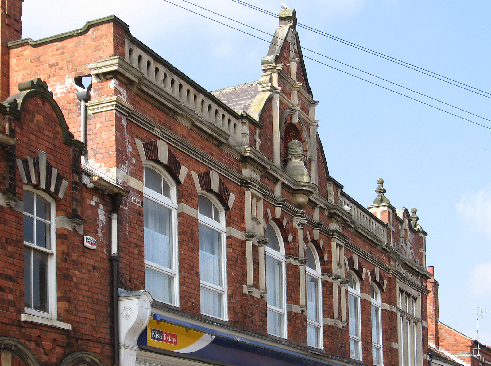 Market Rasen - general store on Union Street